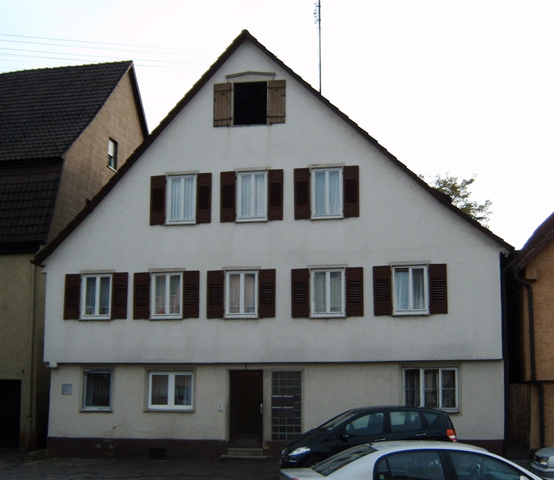 House inhabited by the infant Friedrich Schiller in Lorch from 1764 to 1766.